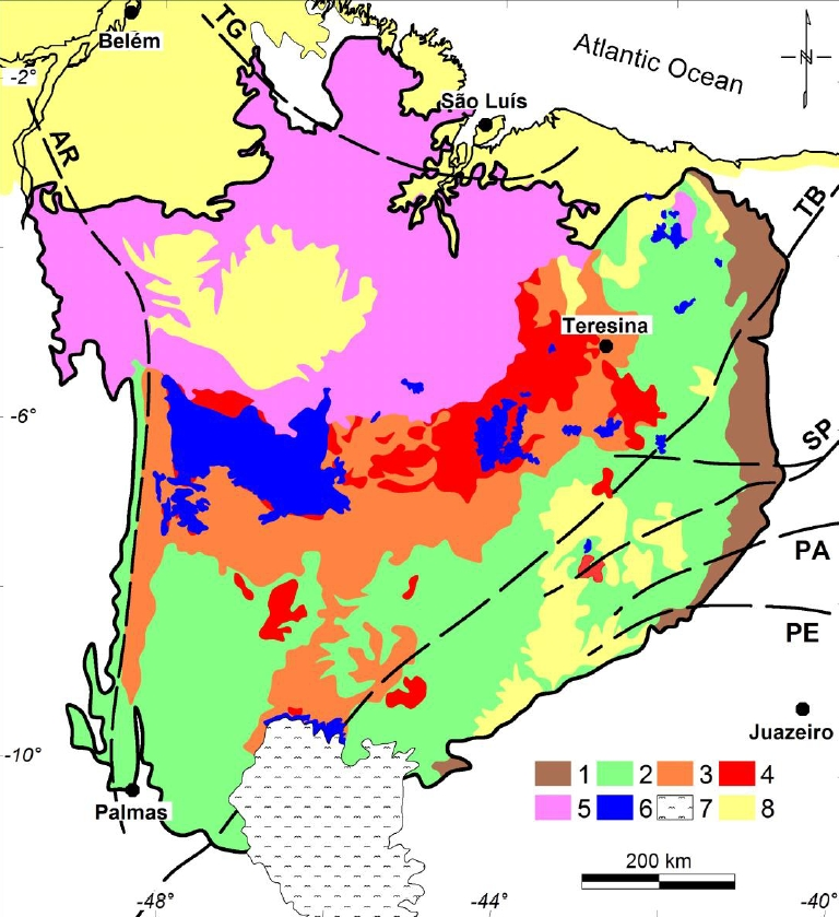 Simplified geologic map of the Parnaíba Basin 1 – Silurian; 2 – Devonian–Carboniferous; 3 – Permian–Triassic; 4 – Jurassic; 5 – Cretaceous; 6 – volcanic rocks; 7 – early Cretaceous São Franciscana basin; 8 –Cenozoic to recent sedimentary cover Brasiliano shear zones: AR– Araguaia; PA – Patos; PE – Pernambuco; SP – Senador Pompeu; TB – Transbrasiliano; TG – Tentugal